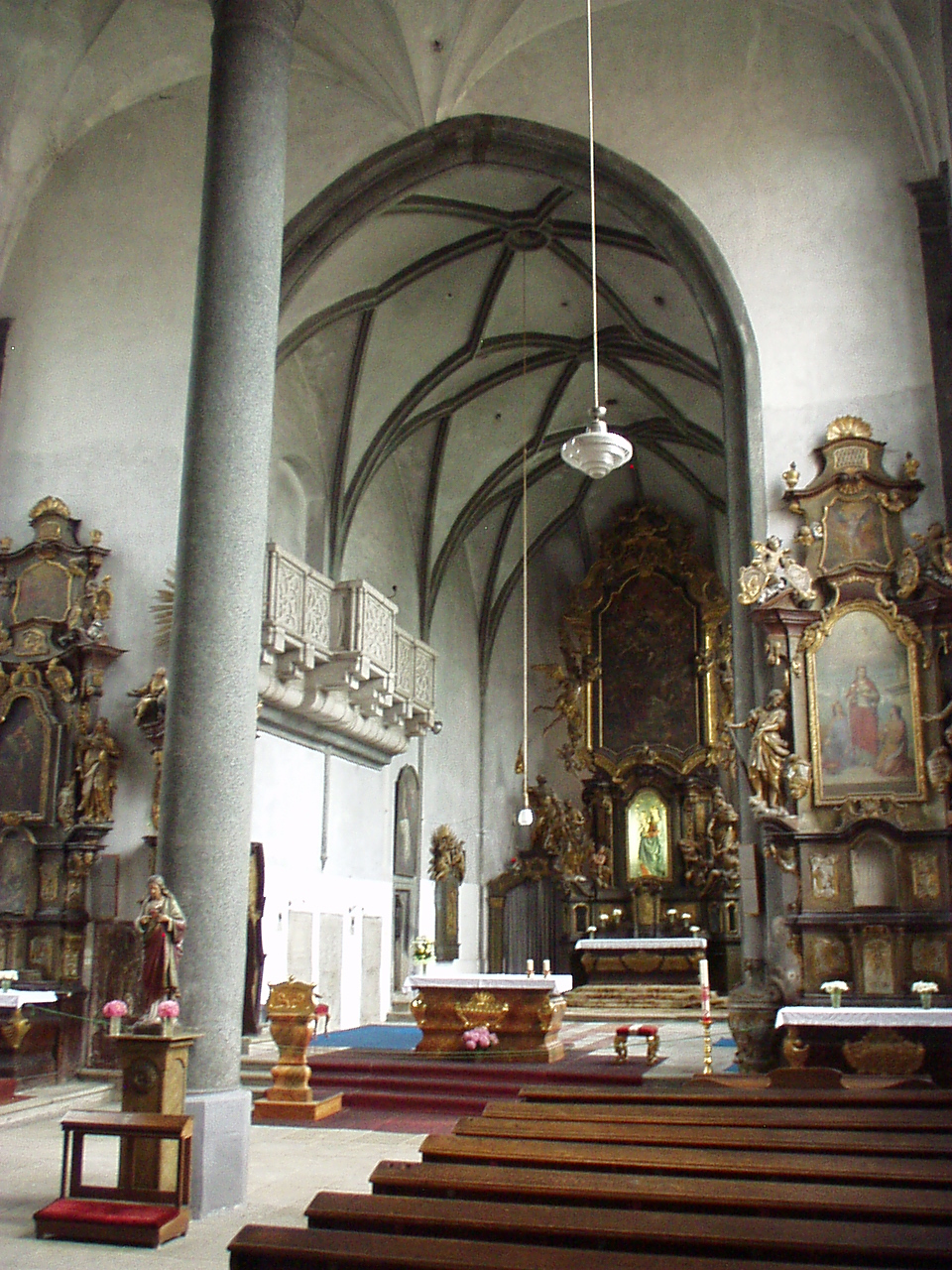 church of Virgin Mary's Ascension in Blatná